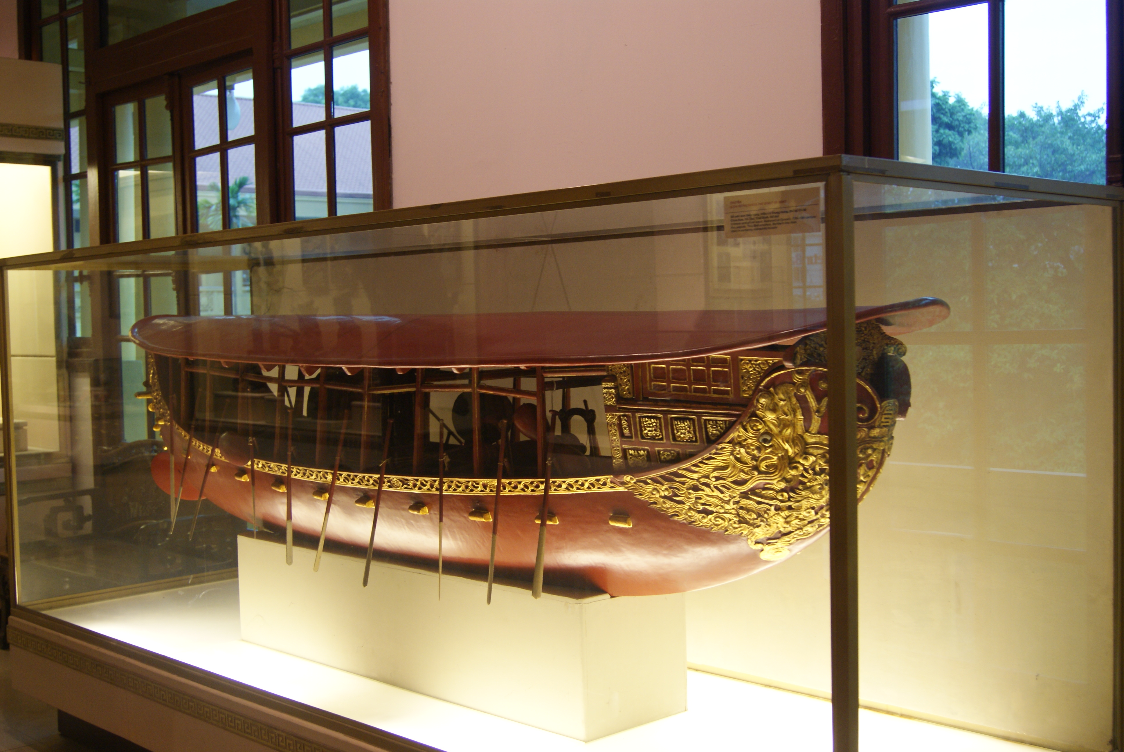 Model of a warship by Dai Viet. Shown in Keo Pagoda, Thái Bình Province, Việt Nam